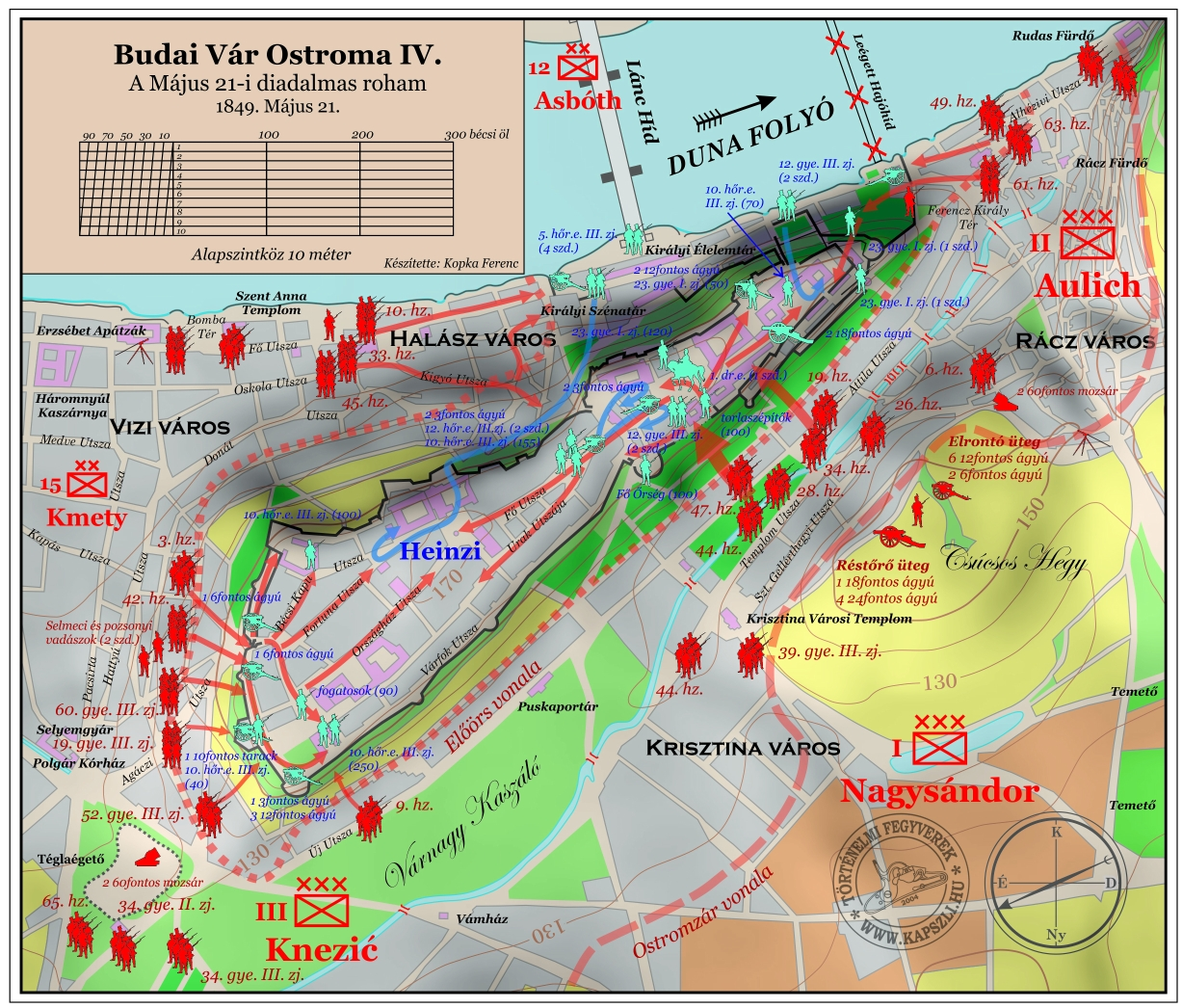 The last assault on Buda 21 May 1849